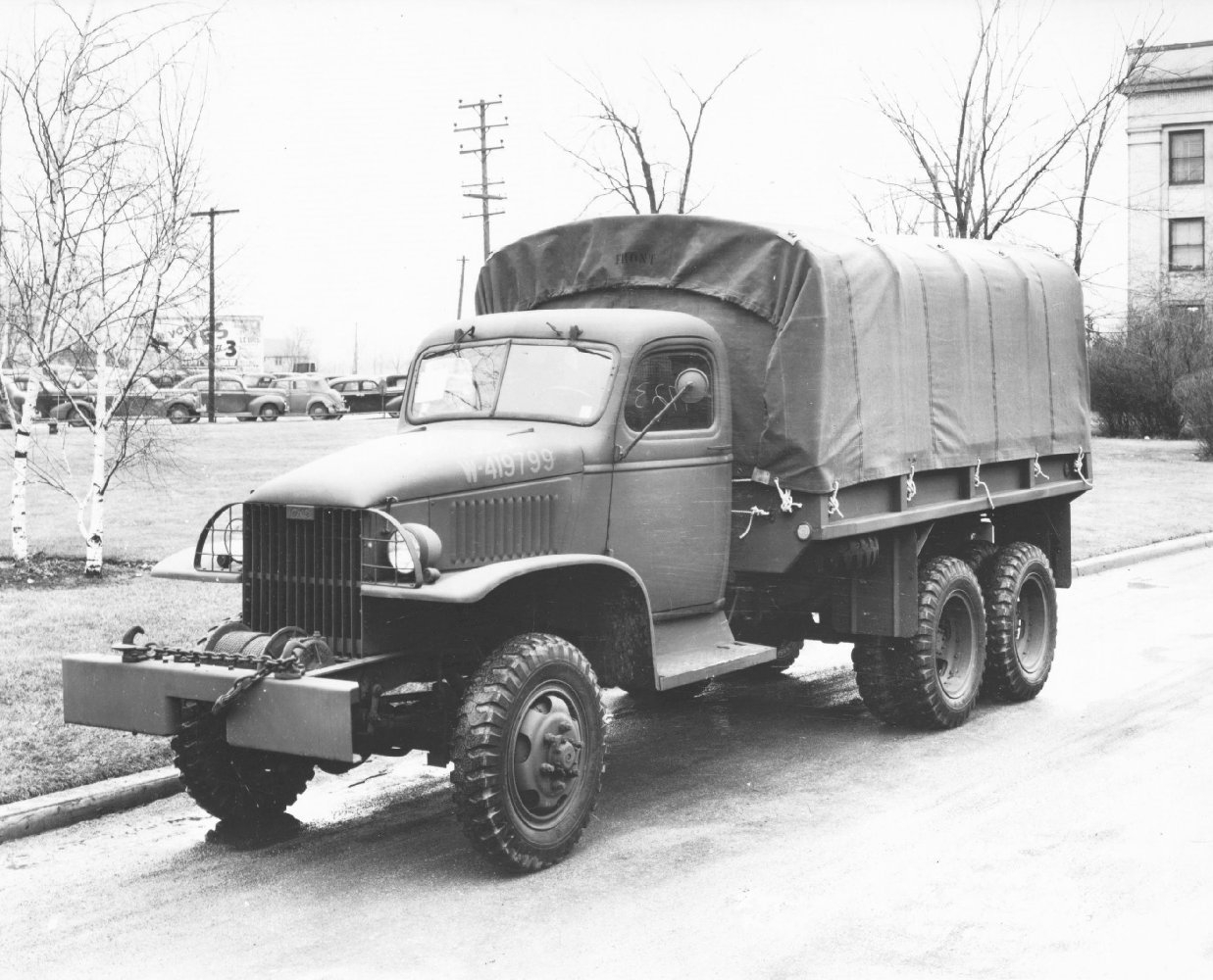 Truck, GMC, 2 1/2 Ton, 6x6, Long Wheelbase Cargo w/ winch.